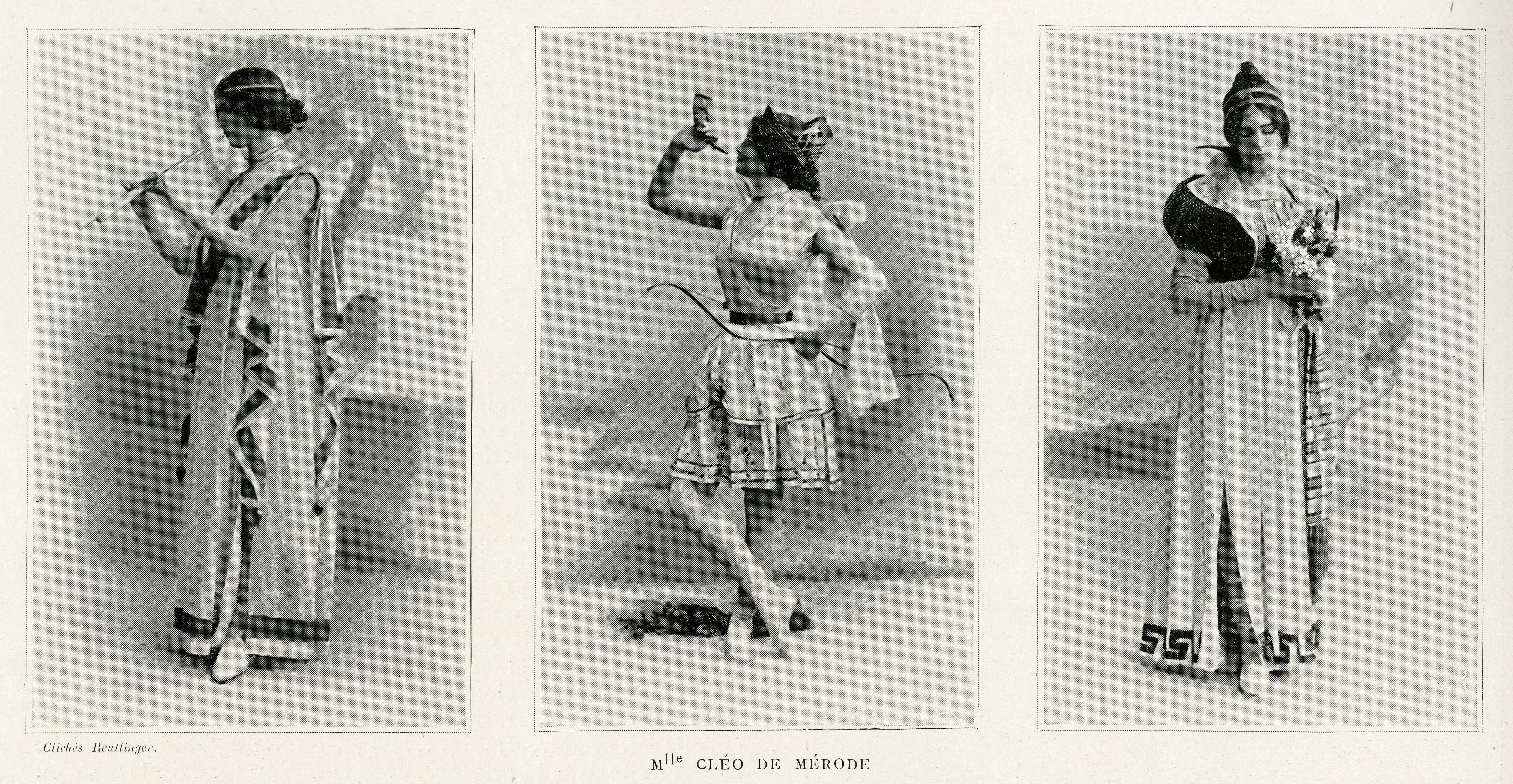 Cléo de Mérode in three different dresses.